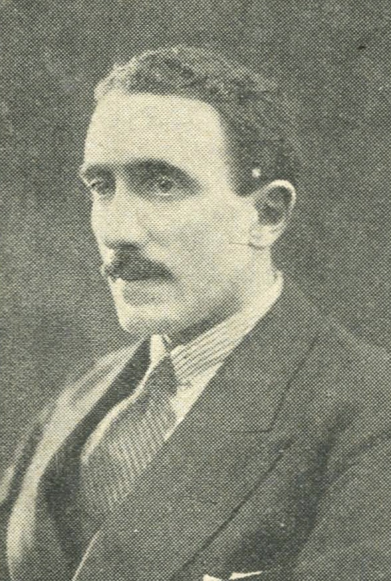 Gerald Ames in a 1919 magazine: Cinema Chat